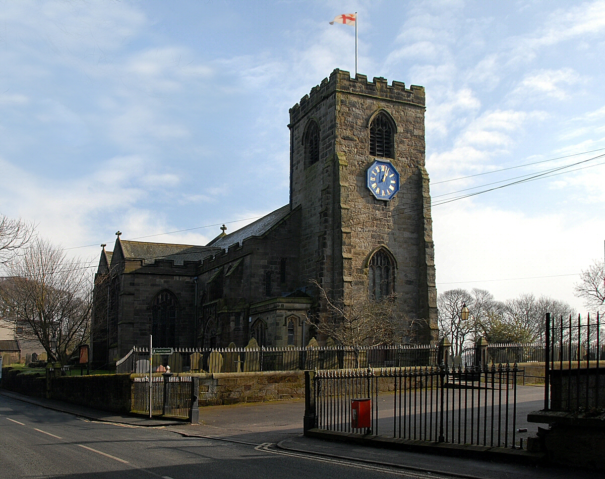 St. Leonard's Church, near to Walton-le-Dale, Lancashire, Great Britain.